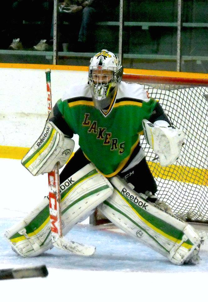 These images of 2014-15 GLJHL action are taken by Devan Mighton.